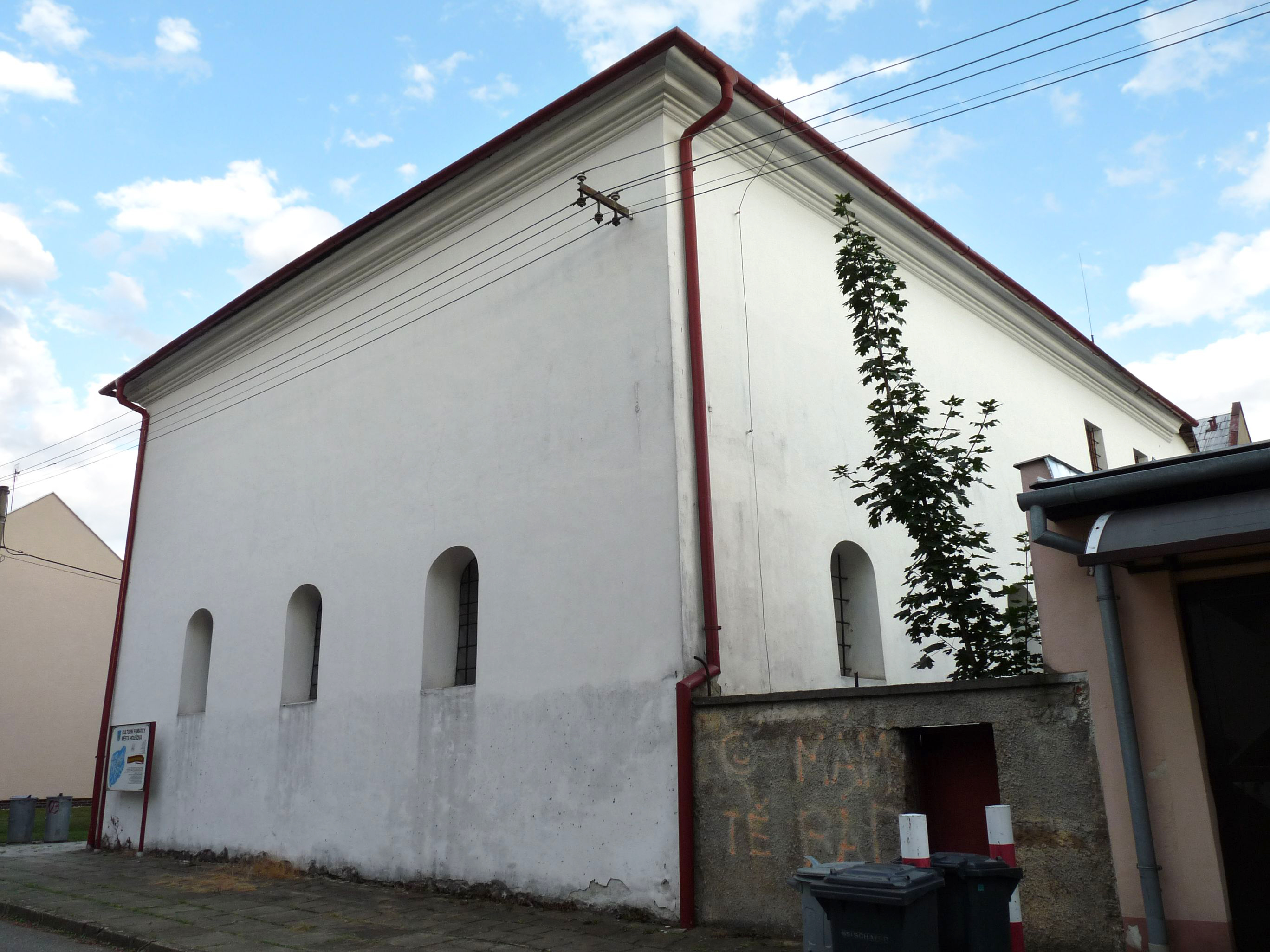 Shah Synagogue in the town of Holešov, Kroměříž District, Zlín Region, Czech Republic.